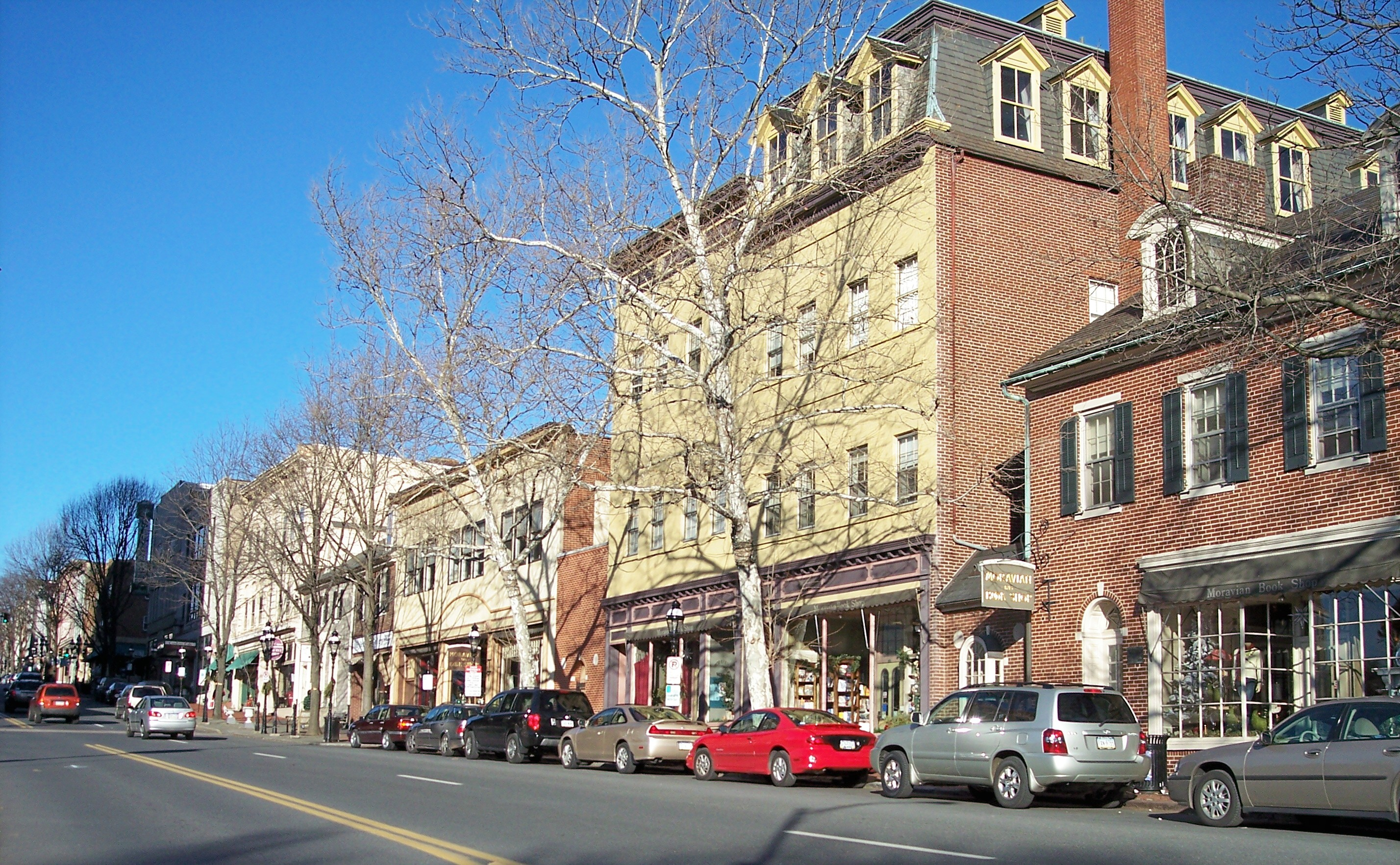 Main Street in downtown Bethlehem, Pennsylvania